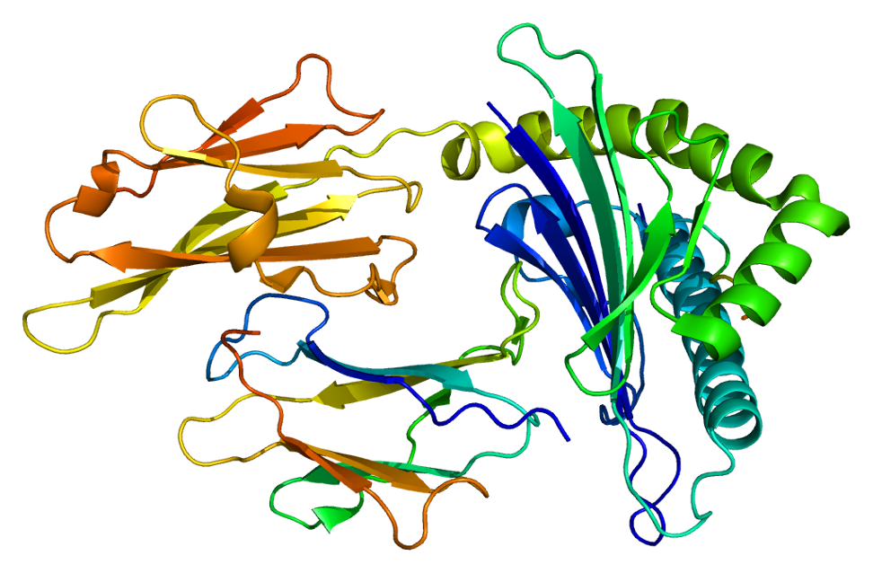 Structure of the HLA-G protein. Based on PyMOL rendering of PDB 1ydp.